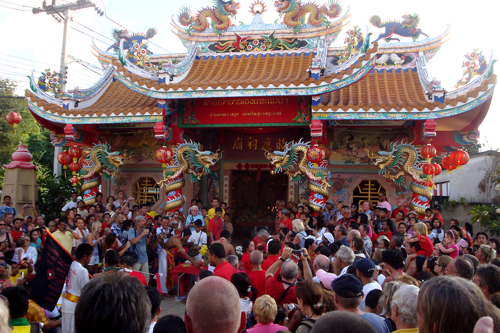 Chinese new year in front of the Maenam temple, Koh Samui, Thailand